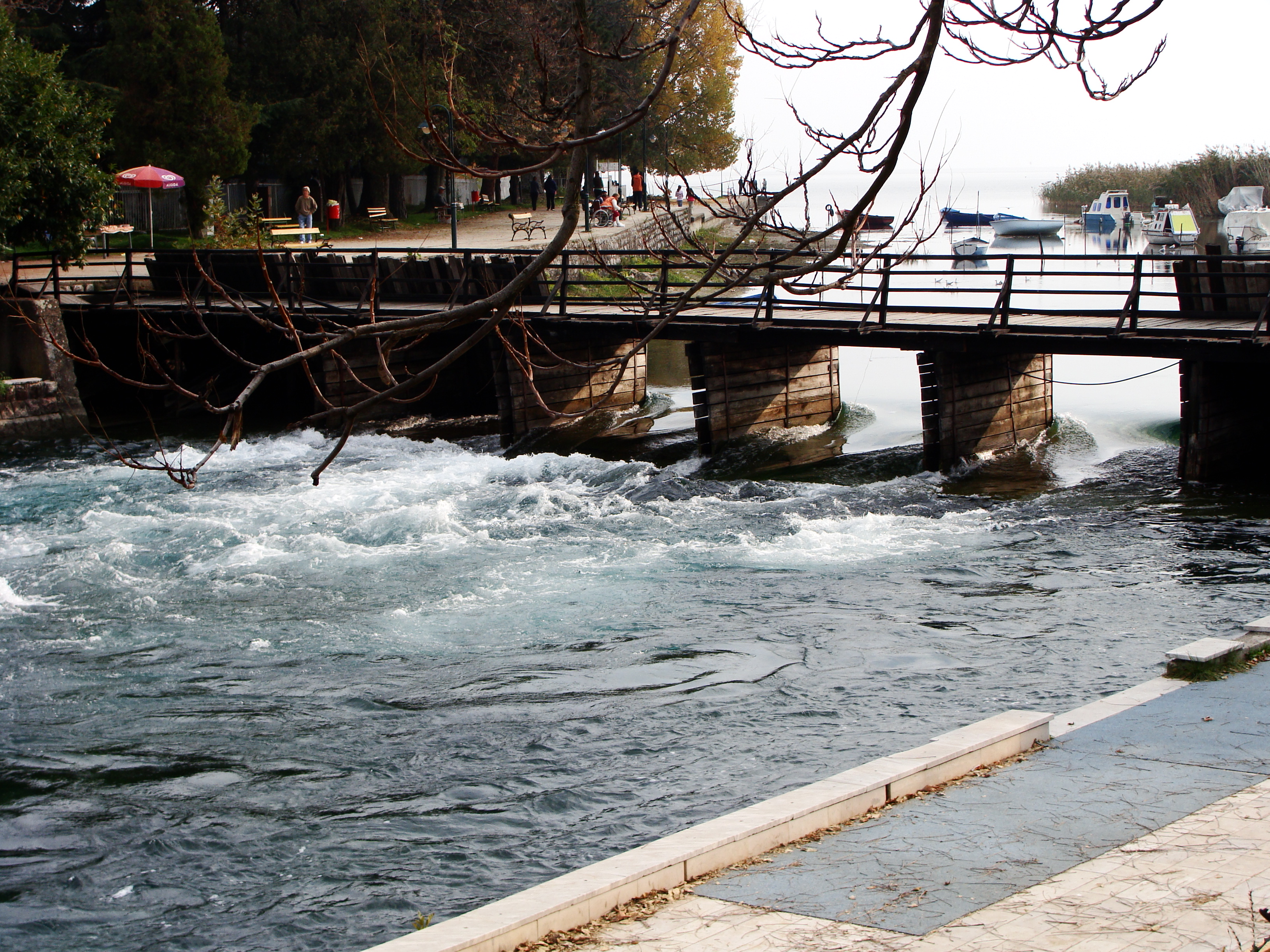 Struga, bridge over the river Drim